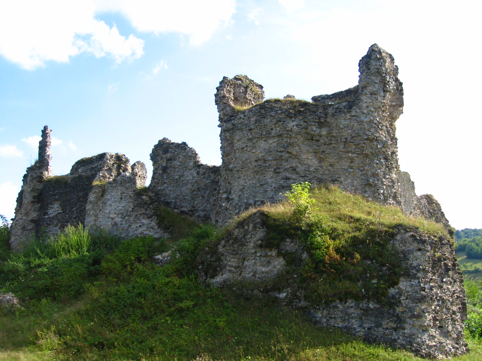 Bužim Castle. Bužim in Western Bosnia-Herzegovina.